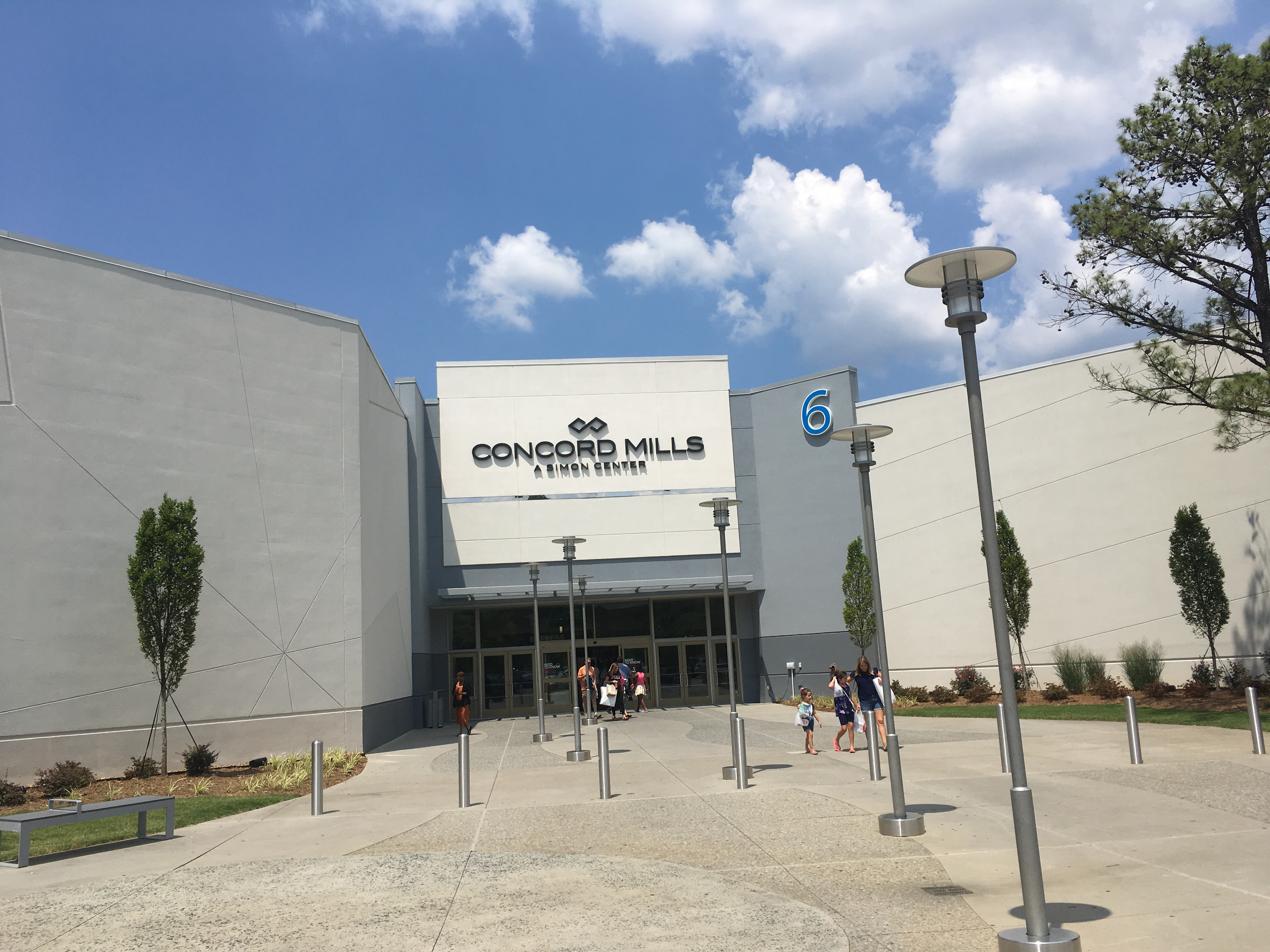 Entrance 6 to the Concord Mills shopping mall in Concord, North Carolina